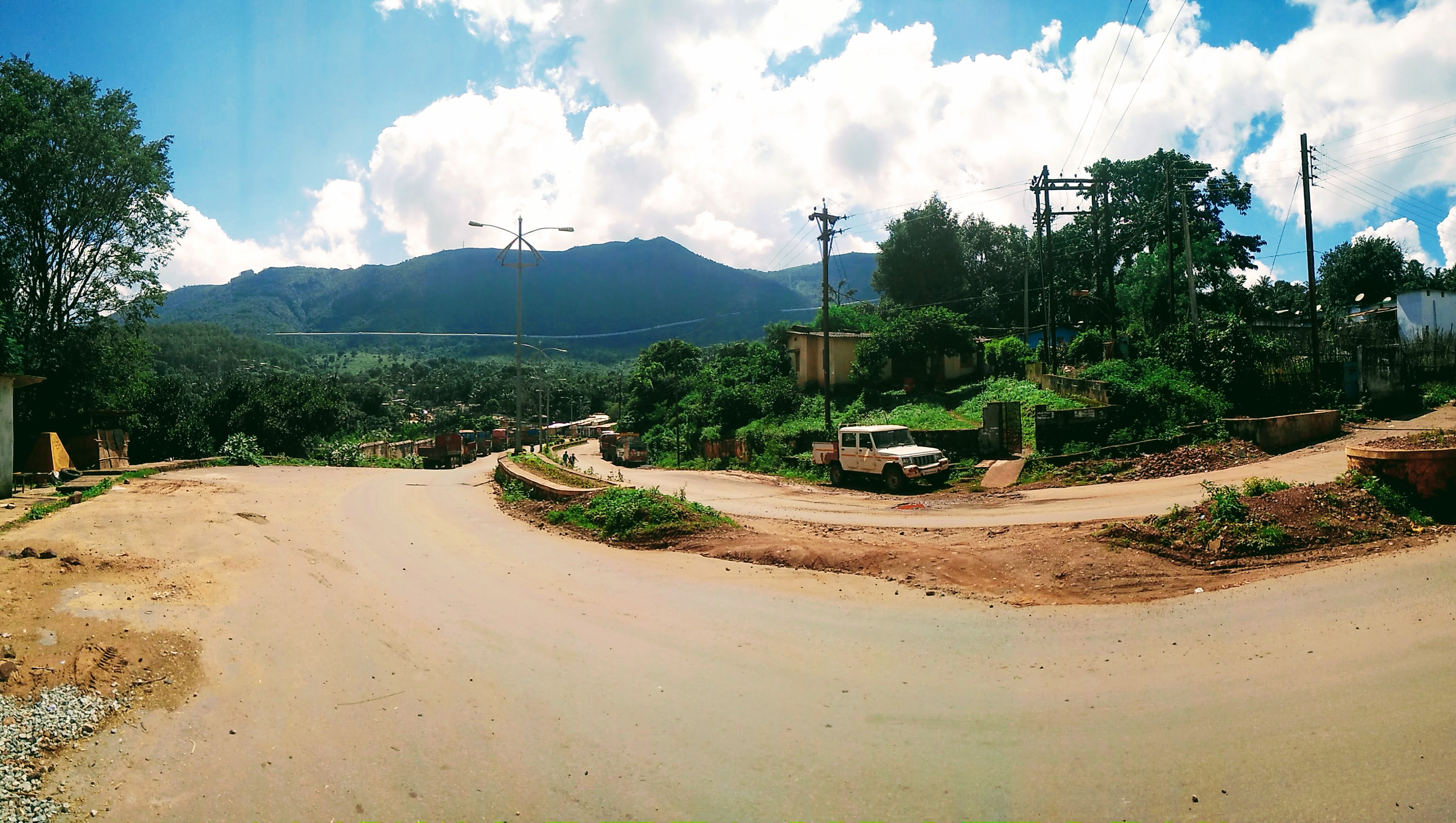 Bailadila hill view from Ring Road No. 4